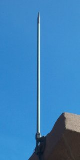 Pointed tip Lightning rod in Illinois, USA I, Dual Freq, took this photo and release it as GFDL.